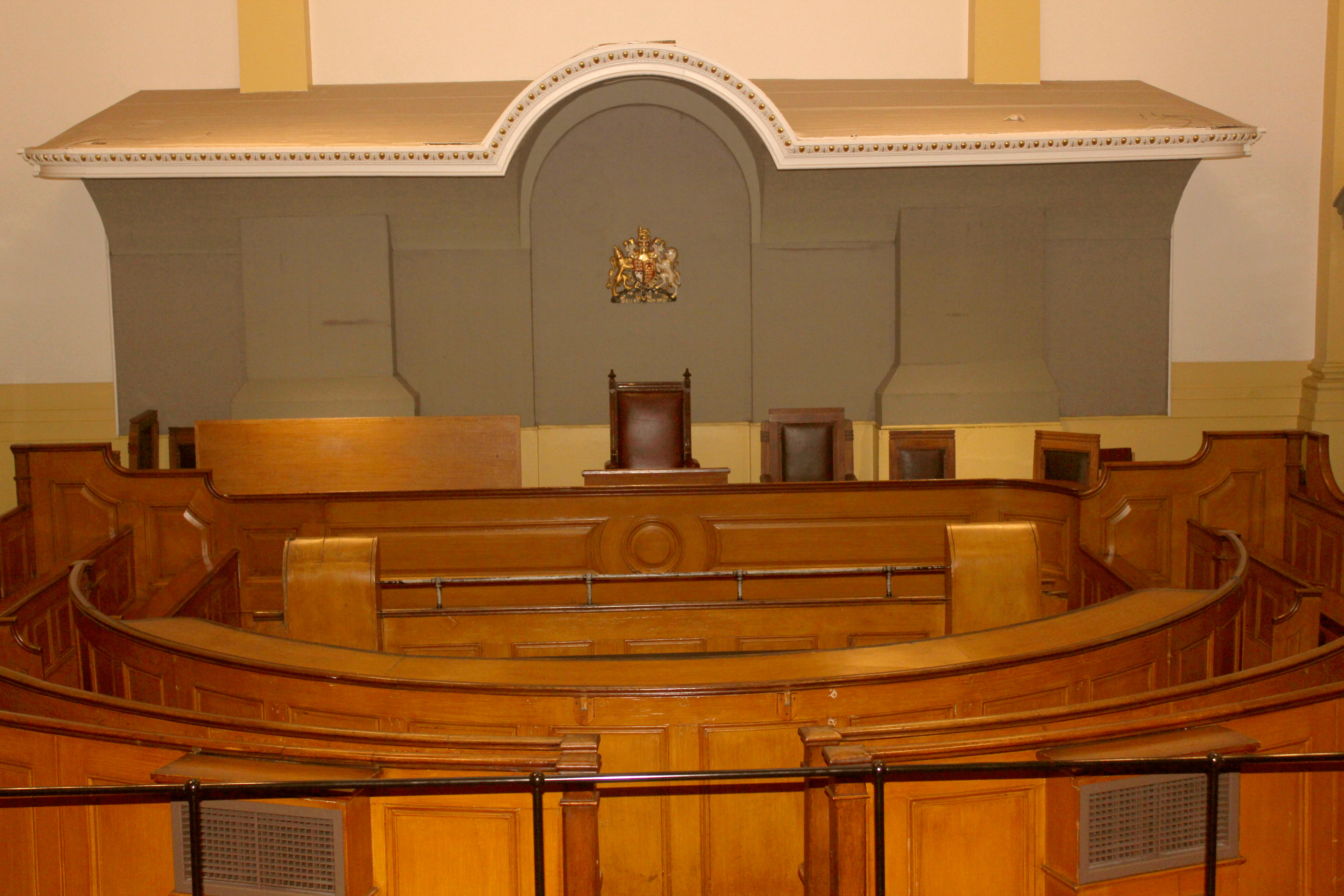 The courtroom in the Town Hall, Leeds, West Yorkshire, England. Designed by Cuthbert Brodrick, built 1853-1858. The courtroom retains the original wooden seating. The room is mostly as it was when built, apart from lighting, heating, and wall-paint. It is no longer used for legal cases, but has been kept for historical value and other purposes. Showing the view from the ladies' gallery towards the bench. The dock with its rail is in the centre of the picture.